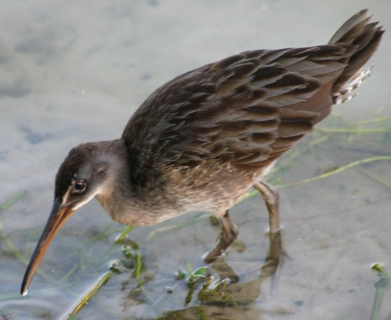 I, Daniel Berganza Took this picture in Lakeland, FL